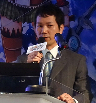 Toshihiro Kondō, president of Nihon Falcom, at Seoul Next Visual Studio